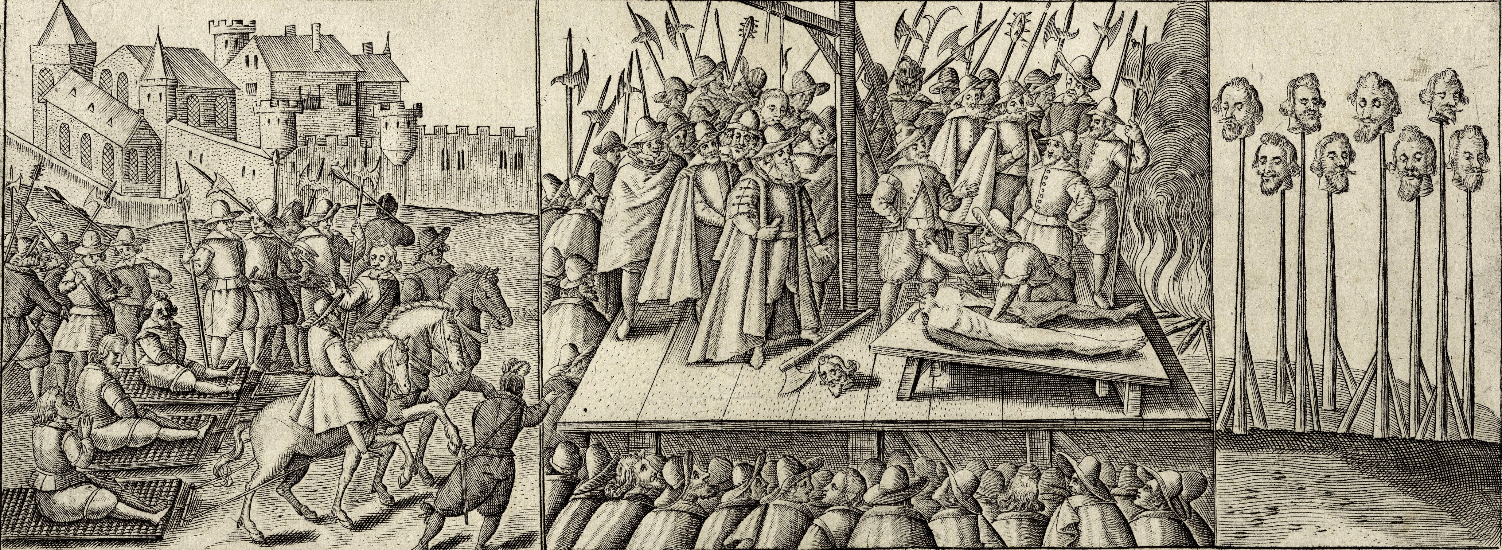 Gunpowder Plot conspirators hanged, drawn and quartered in January 1606.